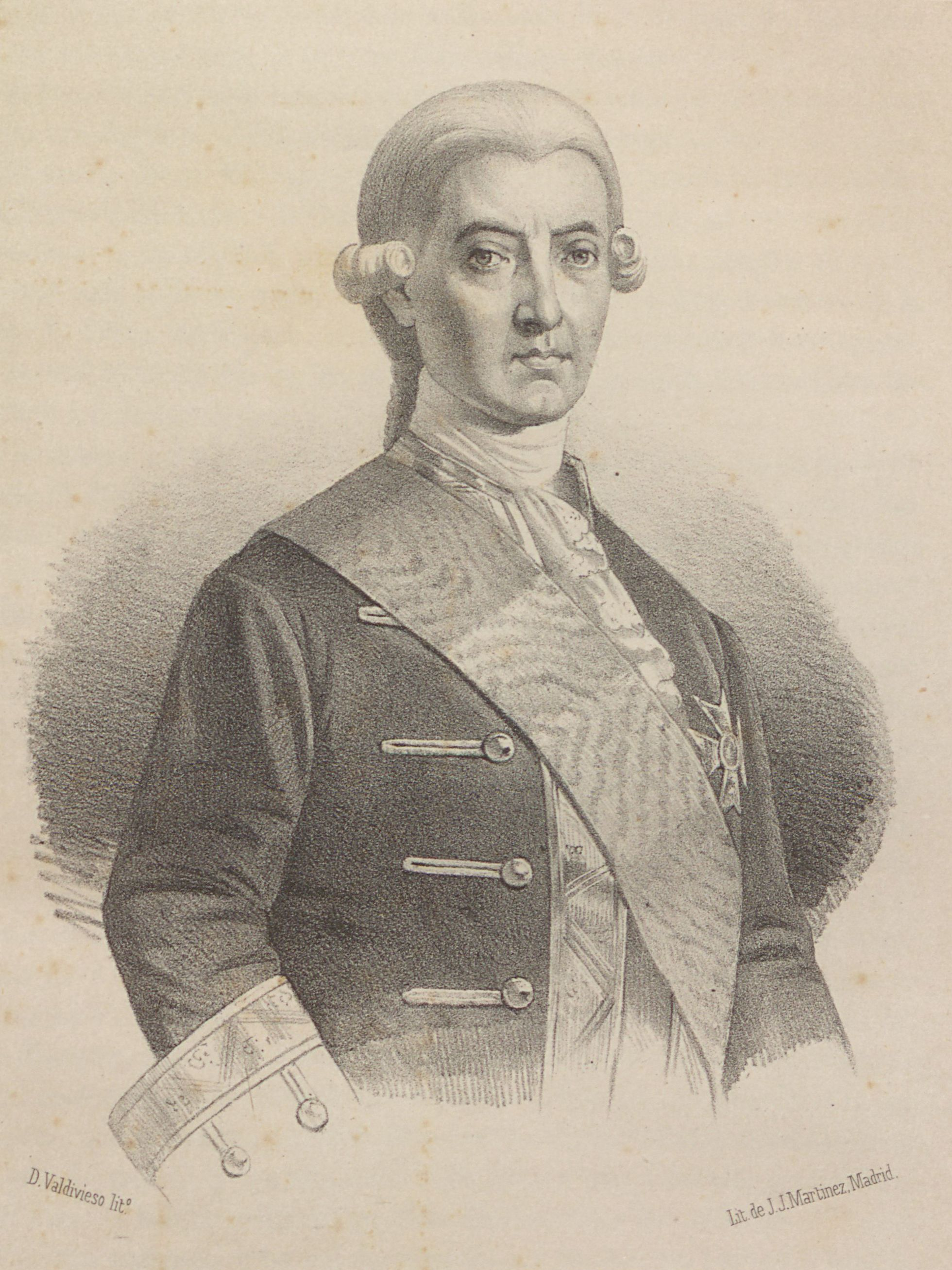 Vea la imagen en su contexto Datos bibliográficos: Título / Autor: Historia de la Marina Real Española : desde el descubrimiento de las américas hasta el combate de Trafalgar Autor Ferrer de Couto, José 1820-1877 March y Labores, José m. 1865) Más detalles: Editor Madrid : s.n. Fecha de creación , 1854 Formato 2 v. : il. ; 33 cm Fuente Catálogo de la biblioteca Identificador OCLC : (OCoLC)433895000 Ilustraciones Lám. de Urrabieta, C. Mugica y Augusto de Belbedero Procedencia Hazañas La Rúa, Joaquín Nota al título Segun Palau, en el t. II se declara que José Ferrer de Couto escribió hasta la pag. 594 del t I ; el resto de la obra, de José March y Labores cuyo nombre figura en la portada del t. II Ref. bibliográficas Palau , 90491 Lugar de Impresión España Madrid Nota desc. física Vol. I ( 669 p. [i.e. 696], [11] h.de grab. ) -- vol. II ( 835 p.) Vol. I carente de port. datos tomados del vol. II Signatura: A 055(a)/160 A 055(a)/161 Localización: Catálogo Fama